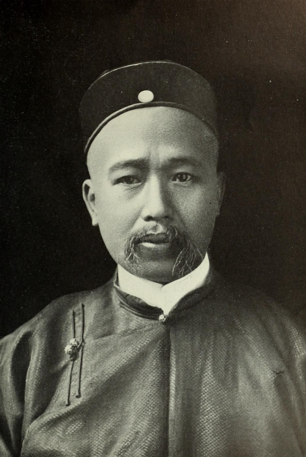 Portrait of Kang Youwei